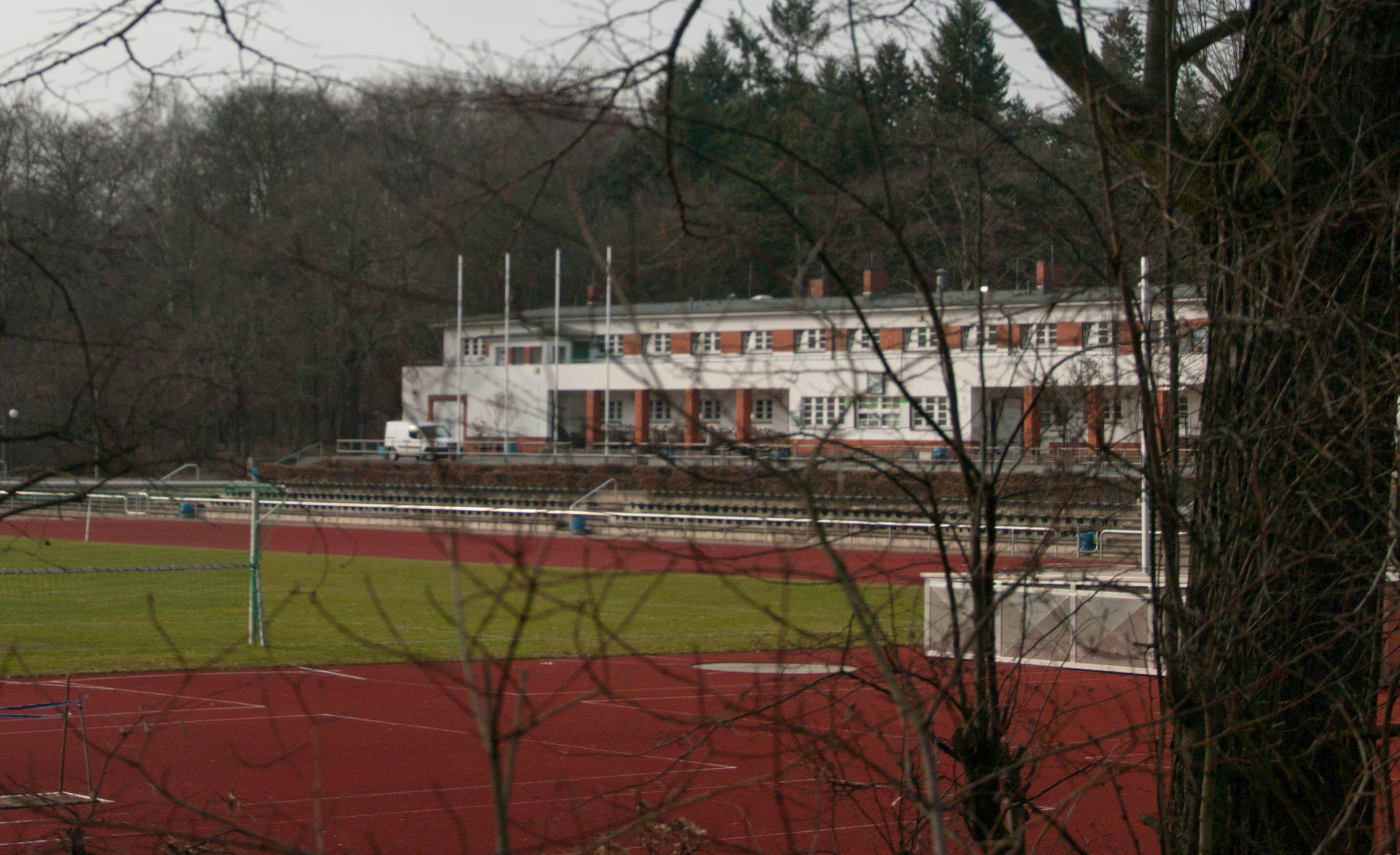 Volkspark Rehberge, Berlin, in March 2016